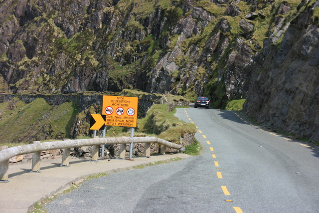 Road warnings on the Connor Pass This is at the top of the Connor Pass, where the R560 road narrows and descends on its way to the north-east. It crosses the face of the cliffs on a ledge and is interesting; the warning signs need to be heeded !